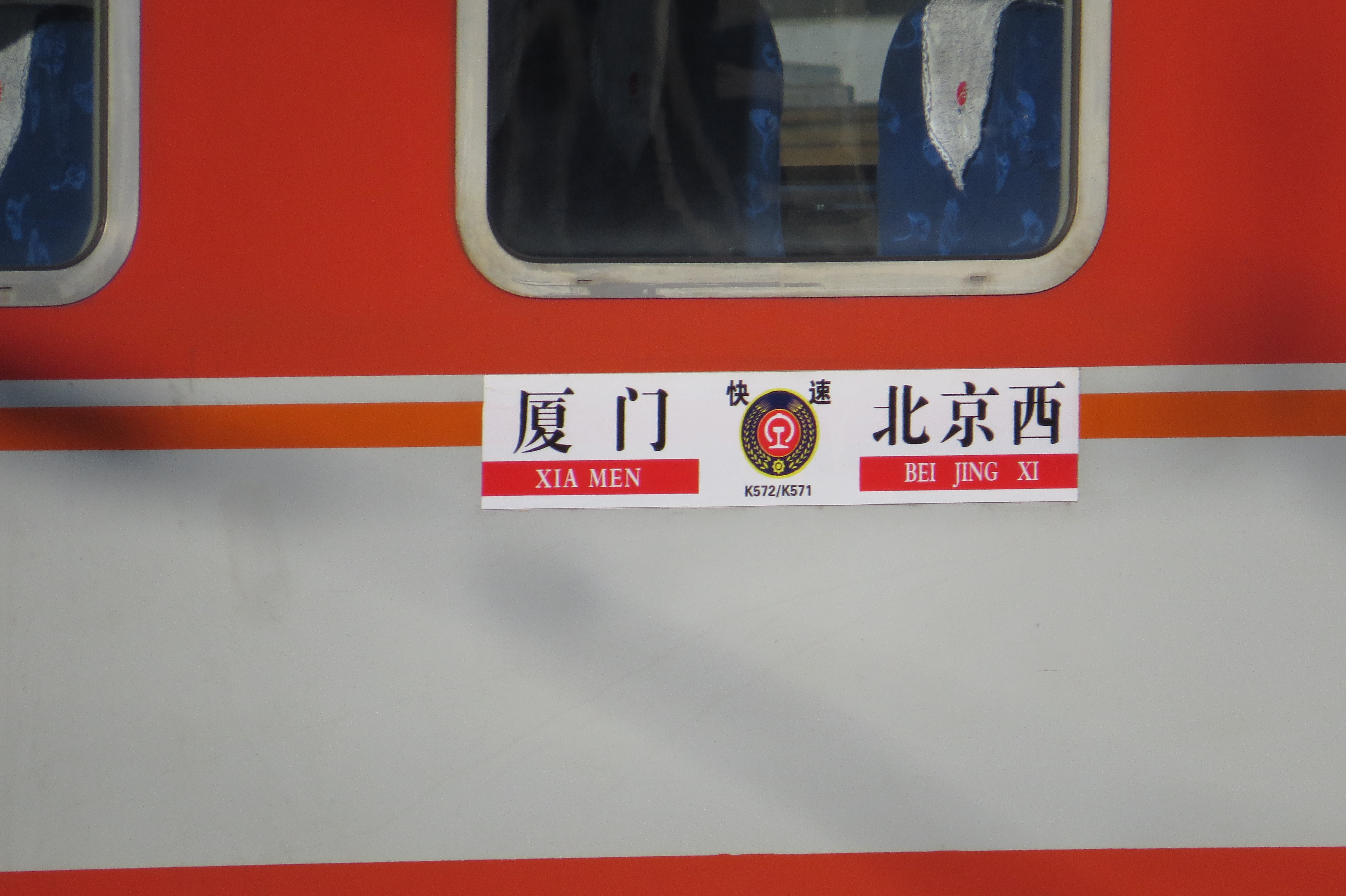 Now extended to Xiamen.